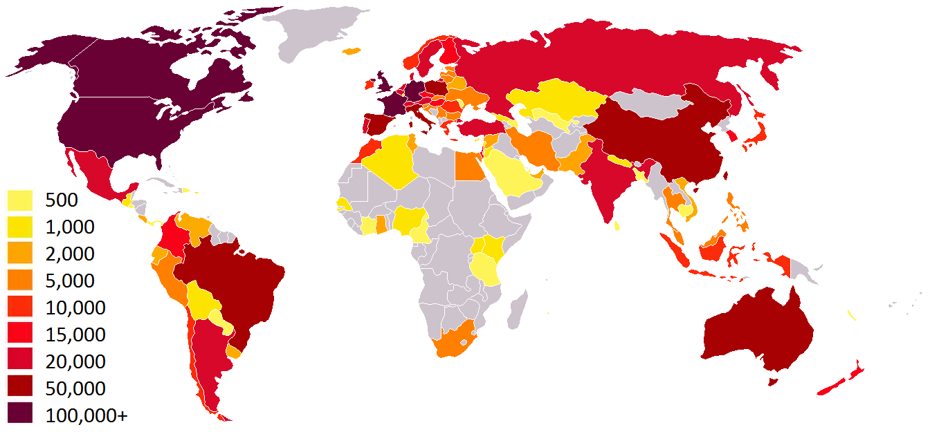 Thematic map indicating number of persons registered with ('CouchSurfers') by country. Data collected at